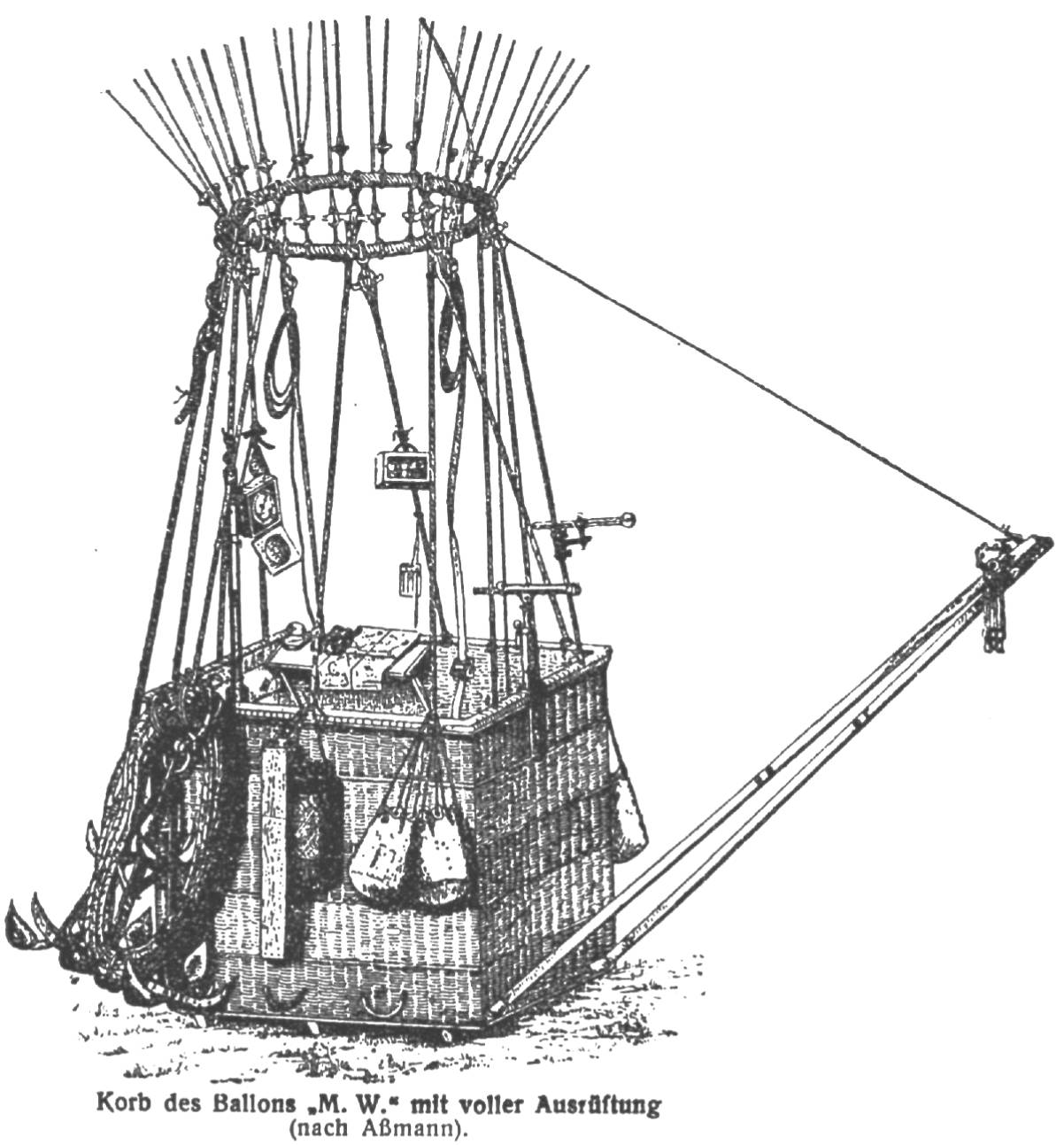 Balloon car equipped for meteorological work, Balloon M.W., 1891